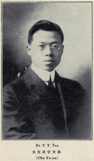 Zhu Youyu (1886－1986)